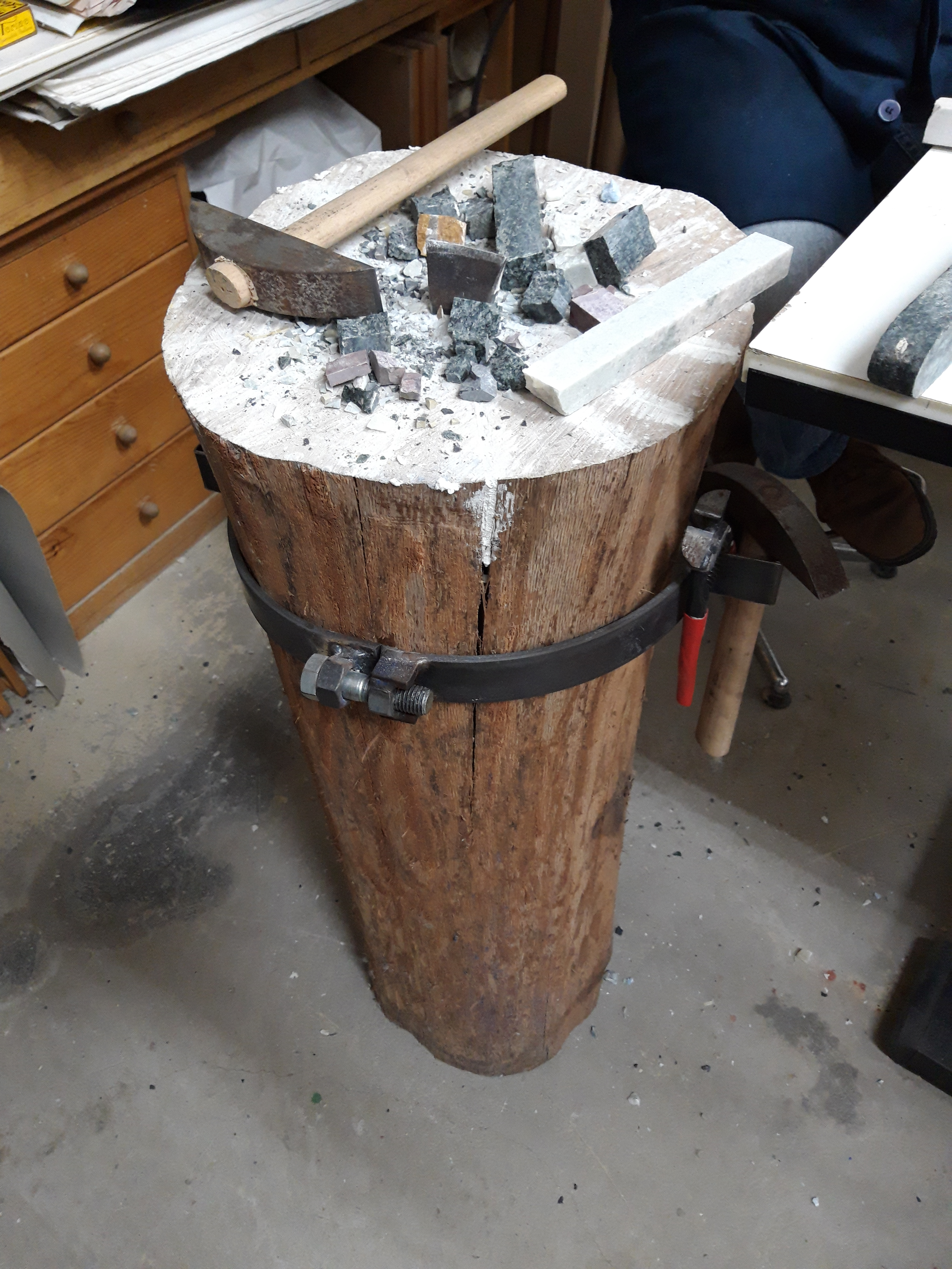 Wooden block with hammer and cutting board for cutting tesserae to be used in the construction of a mosaic